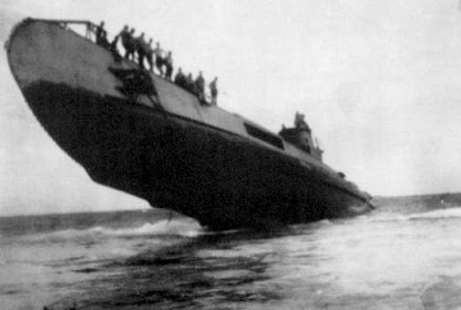 HNLMS O-19, an O-19 class submarine, ran aground on Ladd Reef.